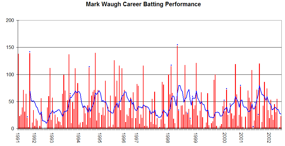 This graph details the Test Match performance of Mark Waugh. It was created by Raven4x4x. The red bars indicate the player's test match innings, while the blue line shows the average of the ten most recent innings at that point. Note that this average cannot be calculated for the first nine innings. The blue dots indicate innings in which Waugh finished not-out. This graph was generated with Microsoft Excel 2002, using data from Cricinfo and .au.